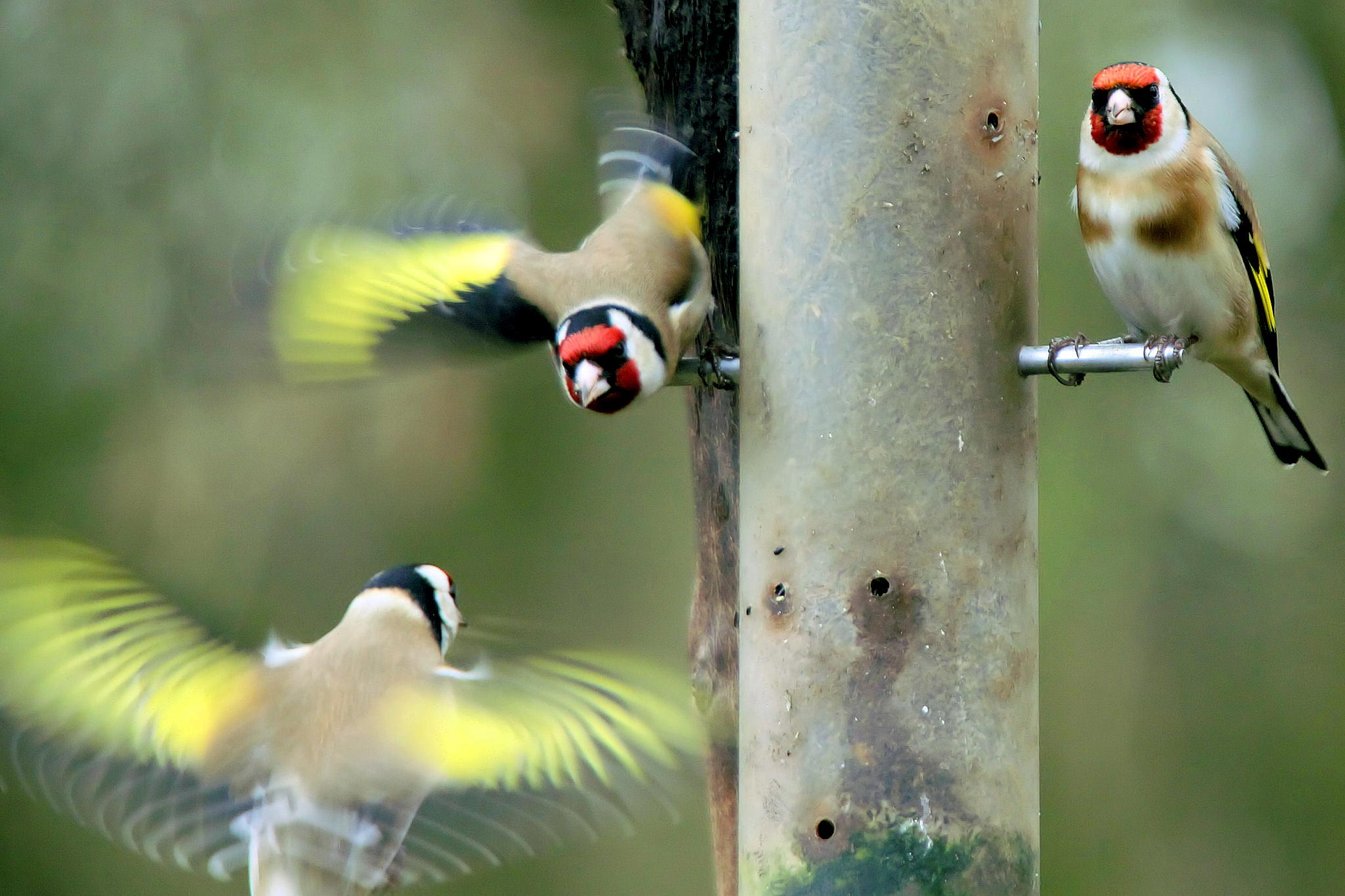 Finches - Rutland Water March 2010